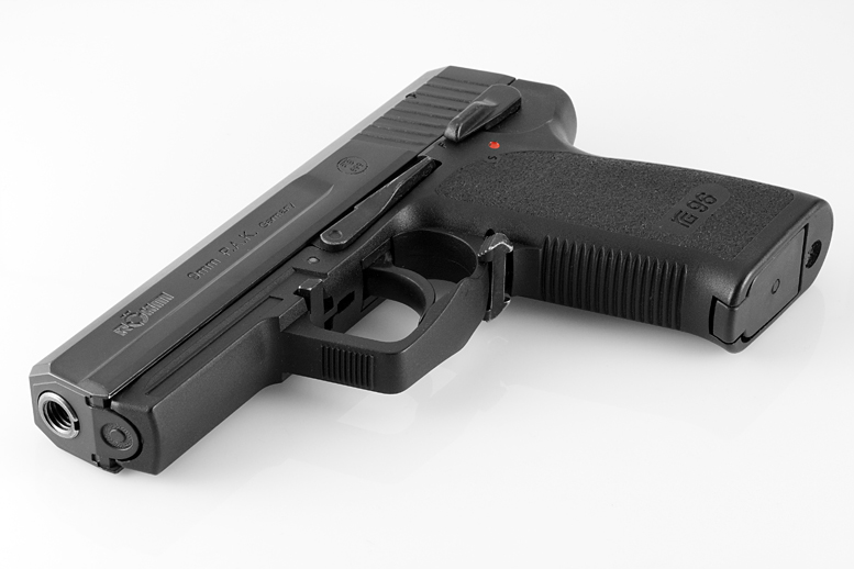 Gas pistol Röhm RG96